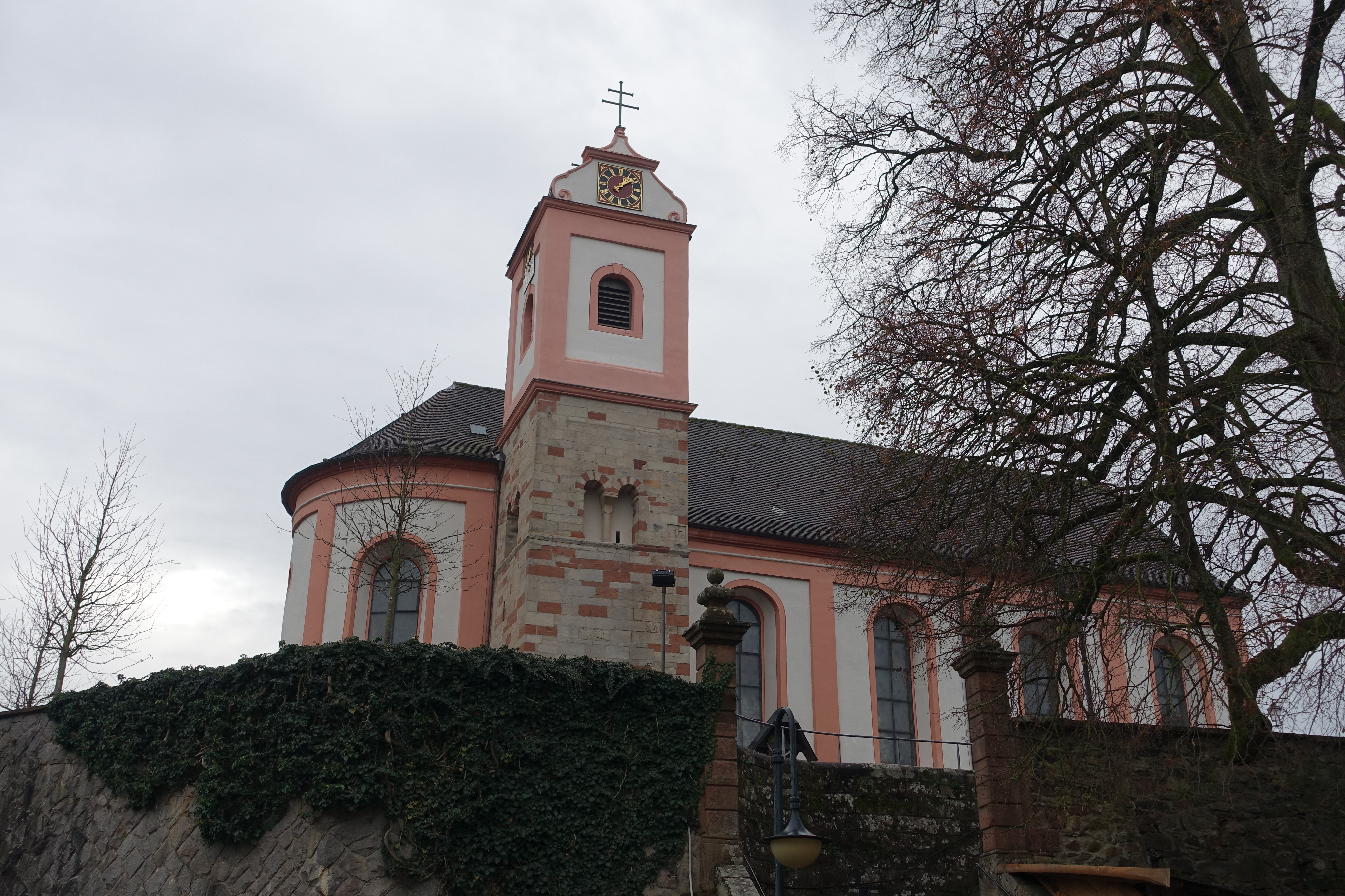 St. Peter und Paul, Welschensteinach, Ortenaukreis, Baden-WÜrttemberg, view from north